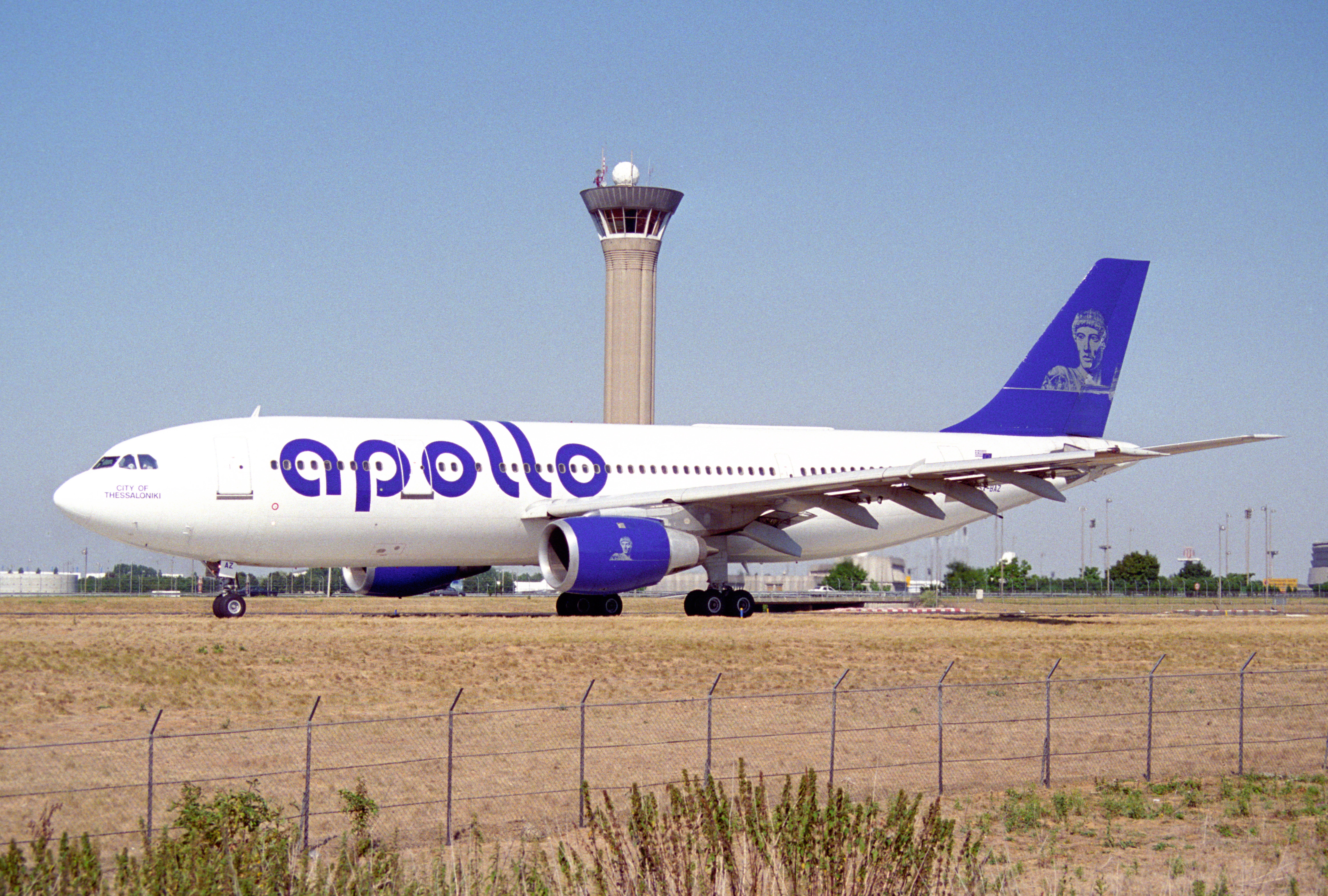 Apollo Airlines A300B4-203; SX-BAZ@CDG;04.08.1996